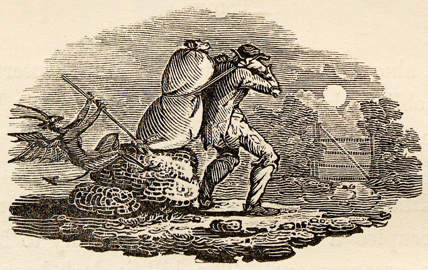 Woodcut by Thomas Bewick in History of British Birds 1797-1804